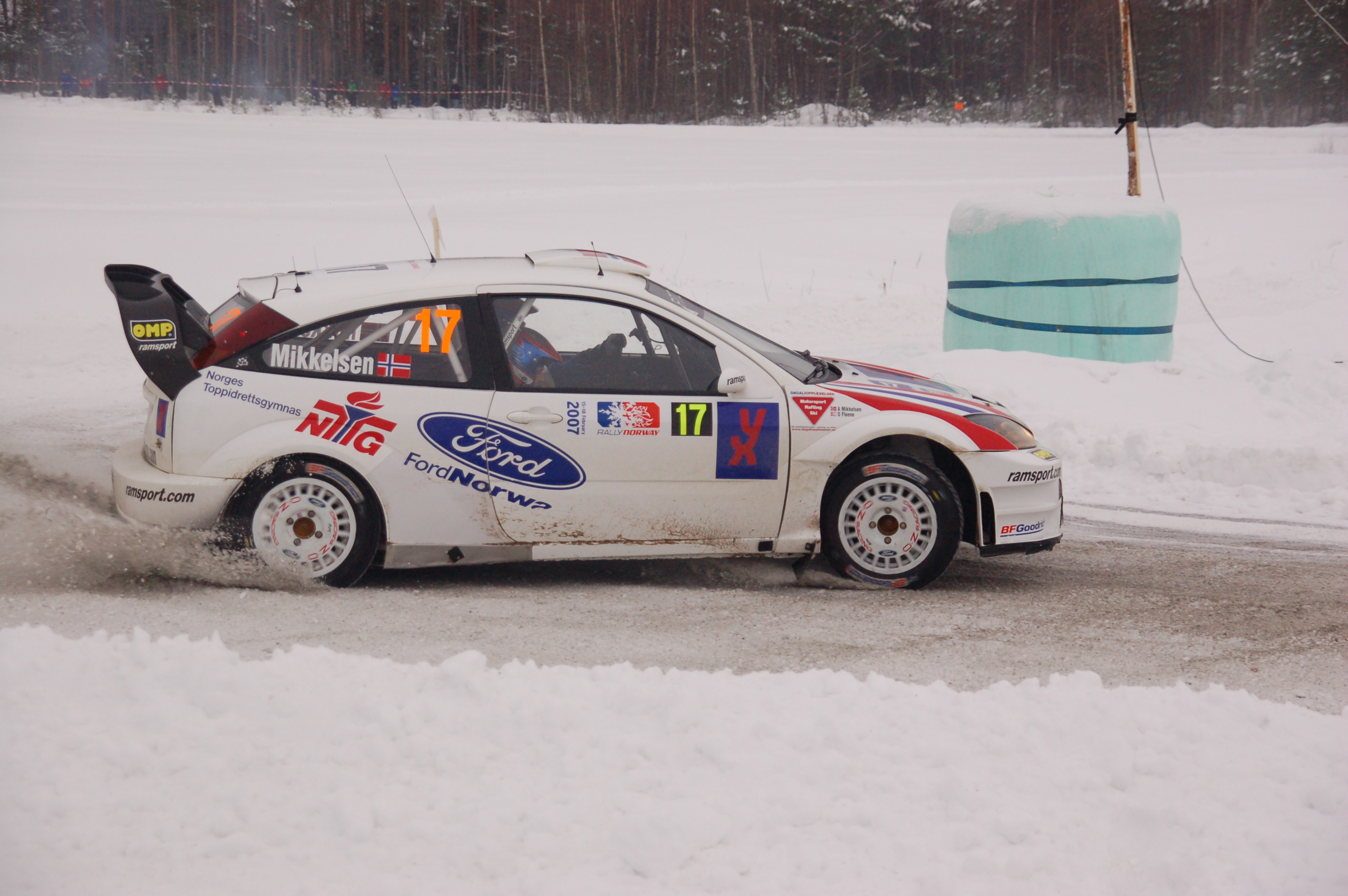 Andreas Mikkelsen during Rally Norway 2007